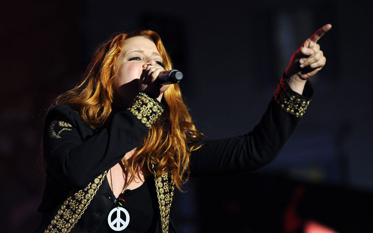 Noemi Live @ Summersong Rome